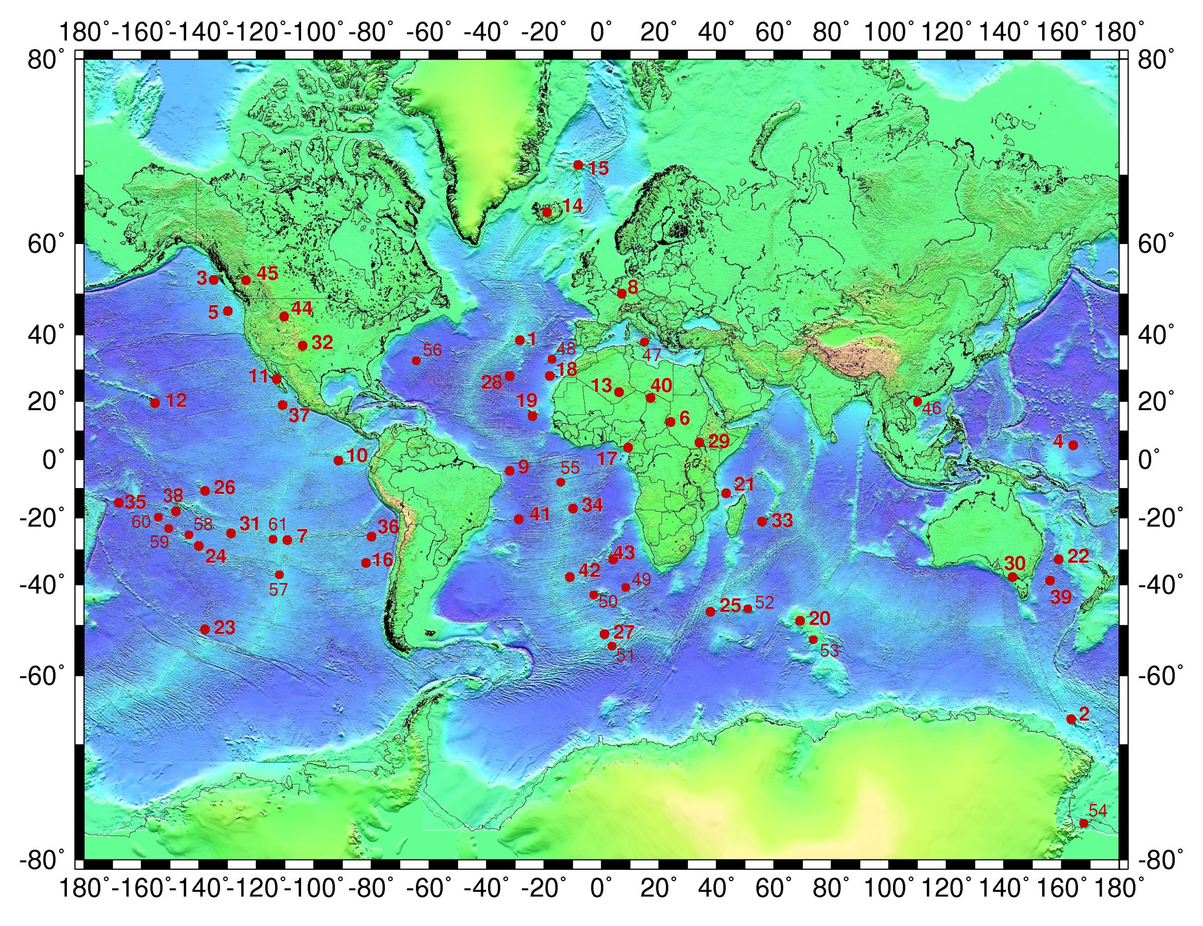 Global distribution of the 61 hotspots listed in Hotspot (geology), based on File:Hotspots.jpg.